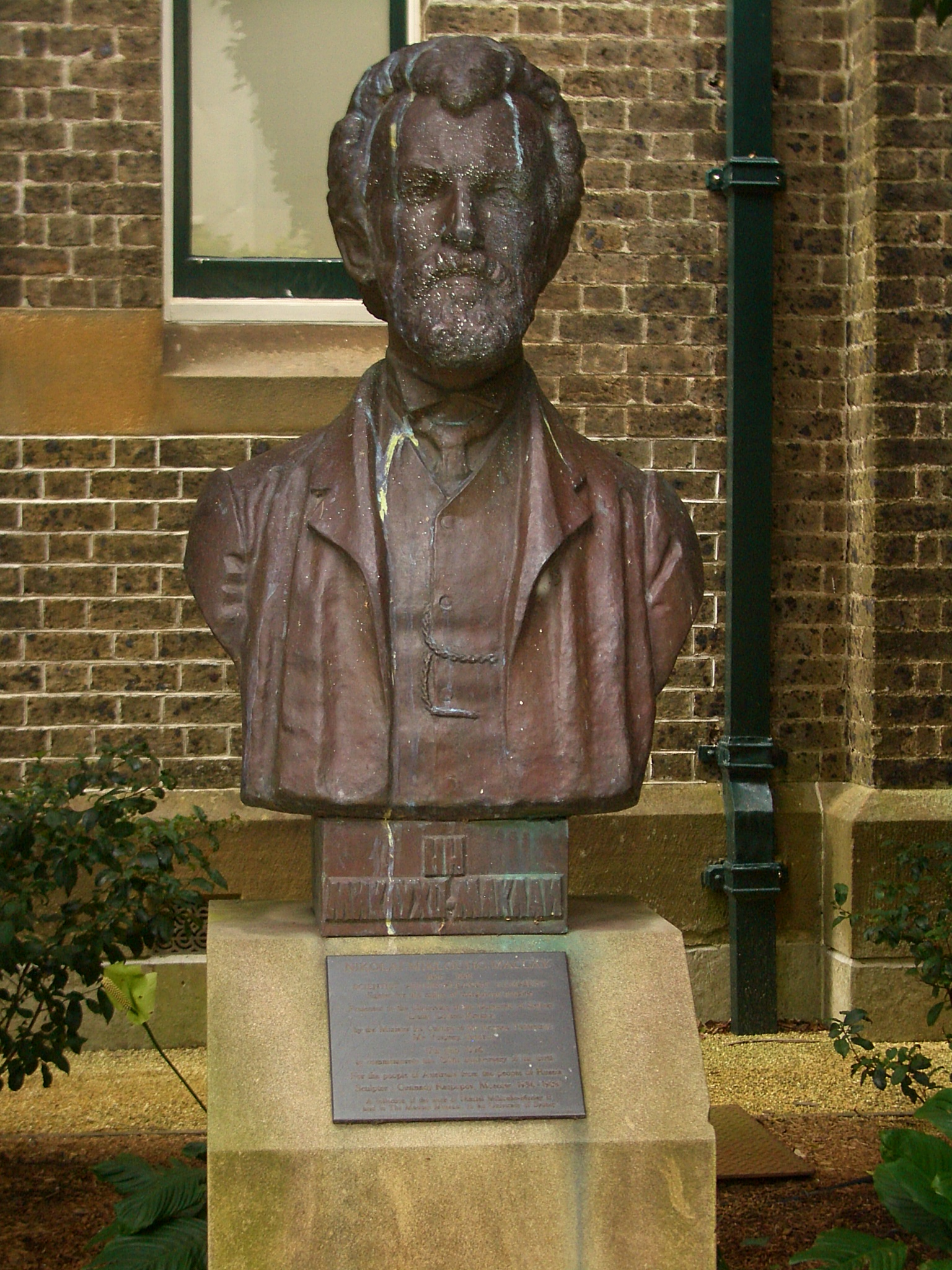 Bust of Nicholas Miklouho-Maclay in front of the Macleay Museum, Science Road on campus of the University of Sydney. On 25 October 1996, this bust of Maclay was unveiled to mark the end of a year of events celebrating the one hundred and fiftieth anniversary of his birth. The bust was damaged, and after repair, it is now located in the foyer of the museum.